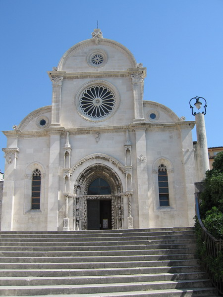 Saint Jacob's cathedral